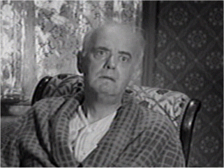 Charles Meredith in episode of The Veil "Genesis"